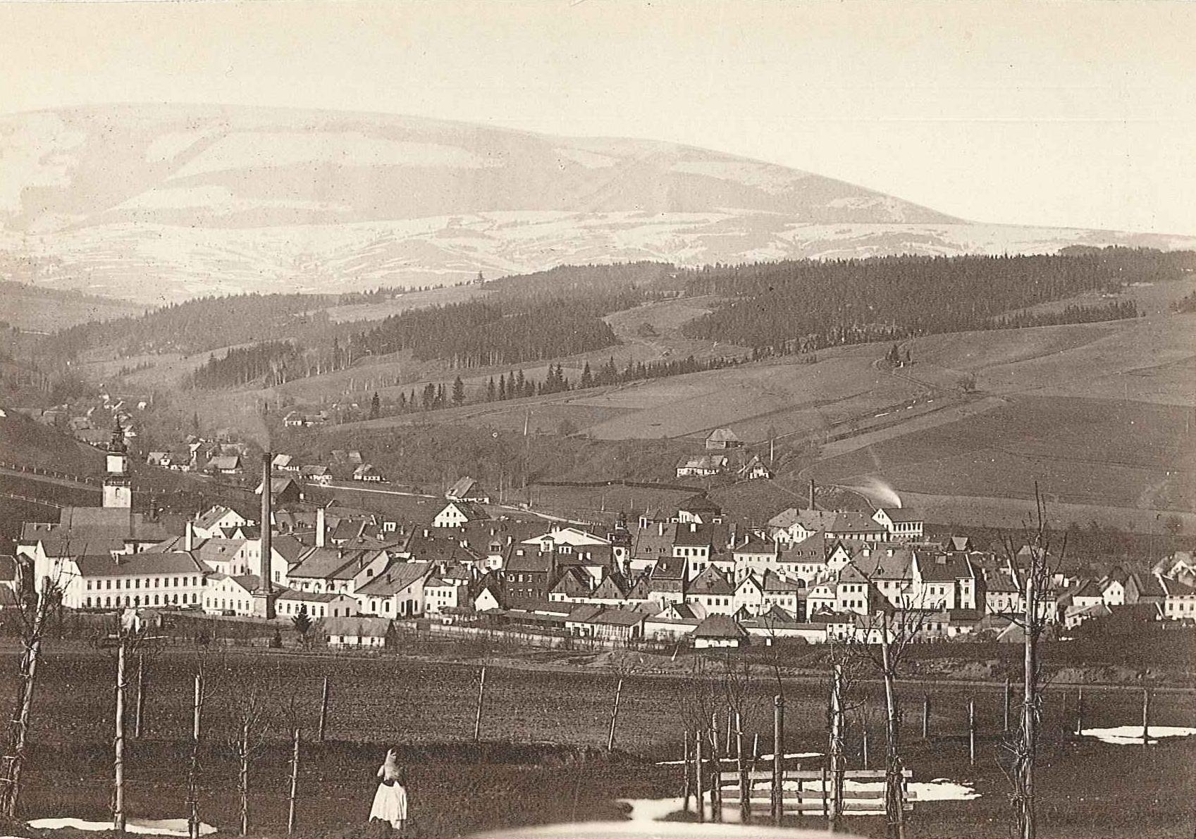 Arnau in Bohemia, before 1868